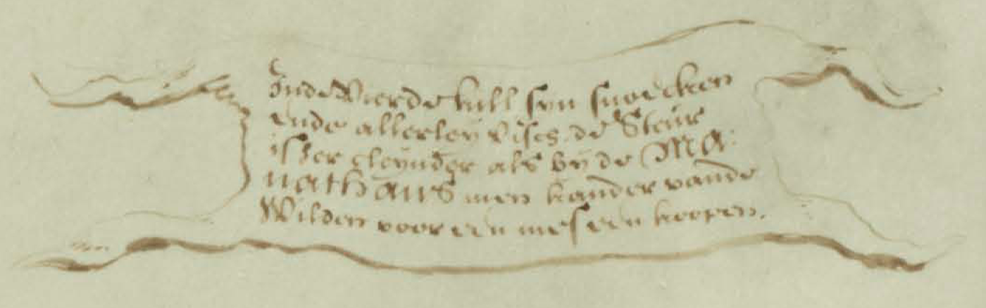 Right scroll of the Map of Rensselaerswyck